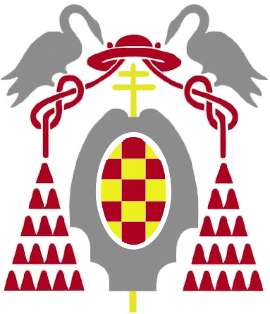 Shield of the University of Alcalá (Alcalá de Henares - Community of Madrid - Spain).